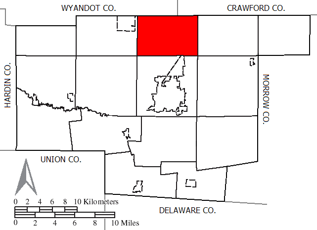 Made by the US Census and modified by myself to highlight the township